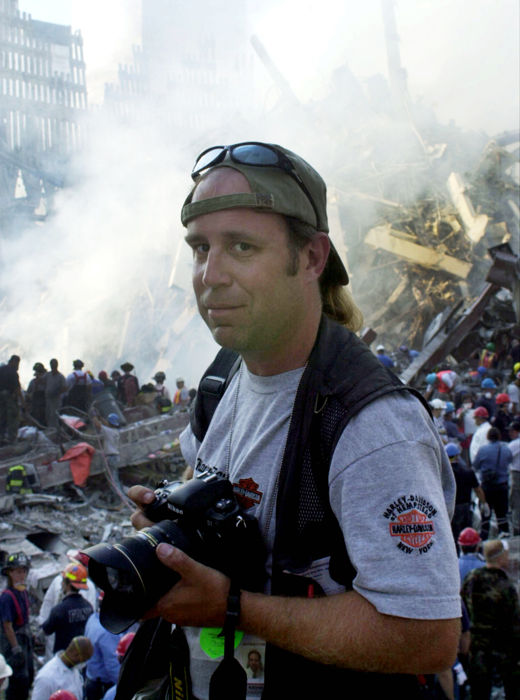 SEPTEMBER 13, 2011-WORLD TRADE CENTER- GROUND ZERO--NEW YORK, NY: Photojournalist Kevin P. Coughlin shown at Ground Zero of the World Trade Center site Thursday afternoon September 13, 2001.©2001 Kevin P. Coughlin - This photo is in full compliance with Wikipedia Commons and may be shared for free by permission of the copyright holder